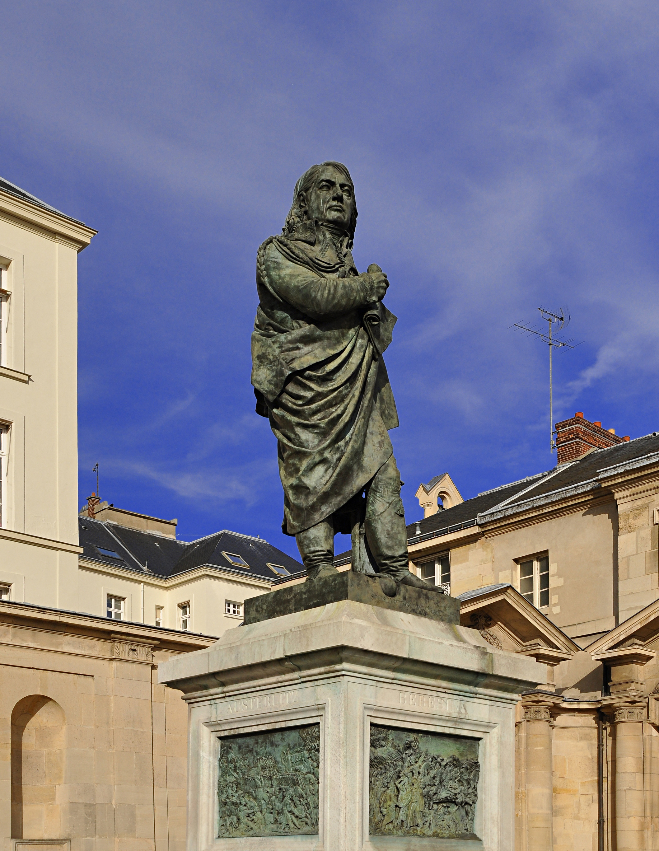 Statue of Dominique Larray in the churchyard of the church of Val-de-Grâce in the 5th arrondissement of Paris in France.